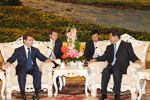 BEIJING. With Chairman of the National Committee of the Chinese People\'s Political Consultative Conference Jia Qinglin.